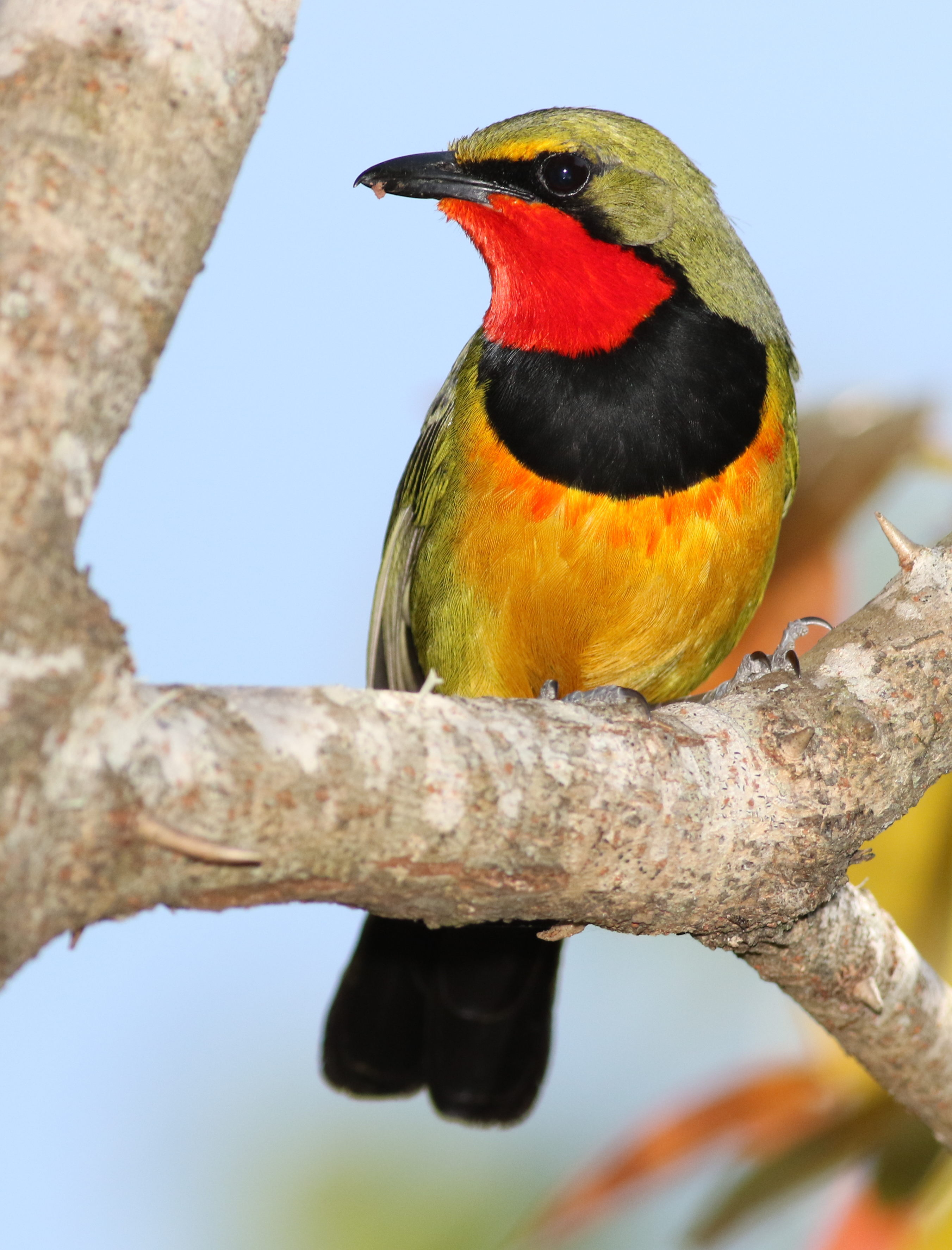 Gorgeous bushshrik, Chlorophoneus viridis, Vumba, Zimbabwe